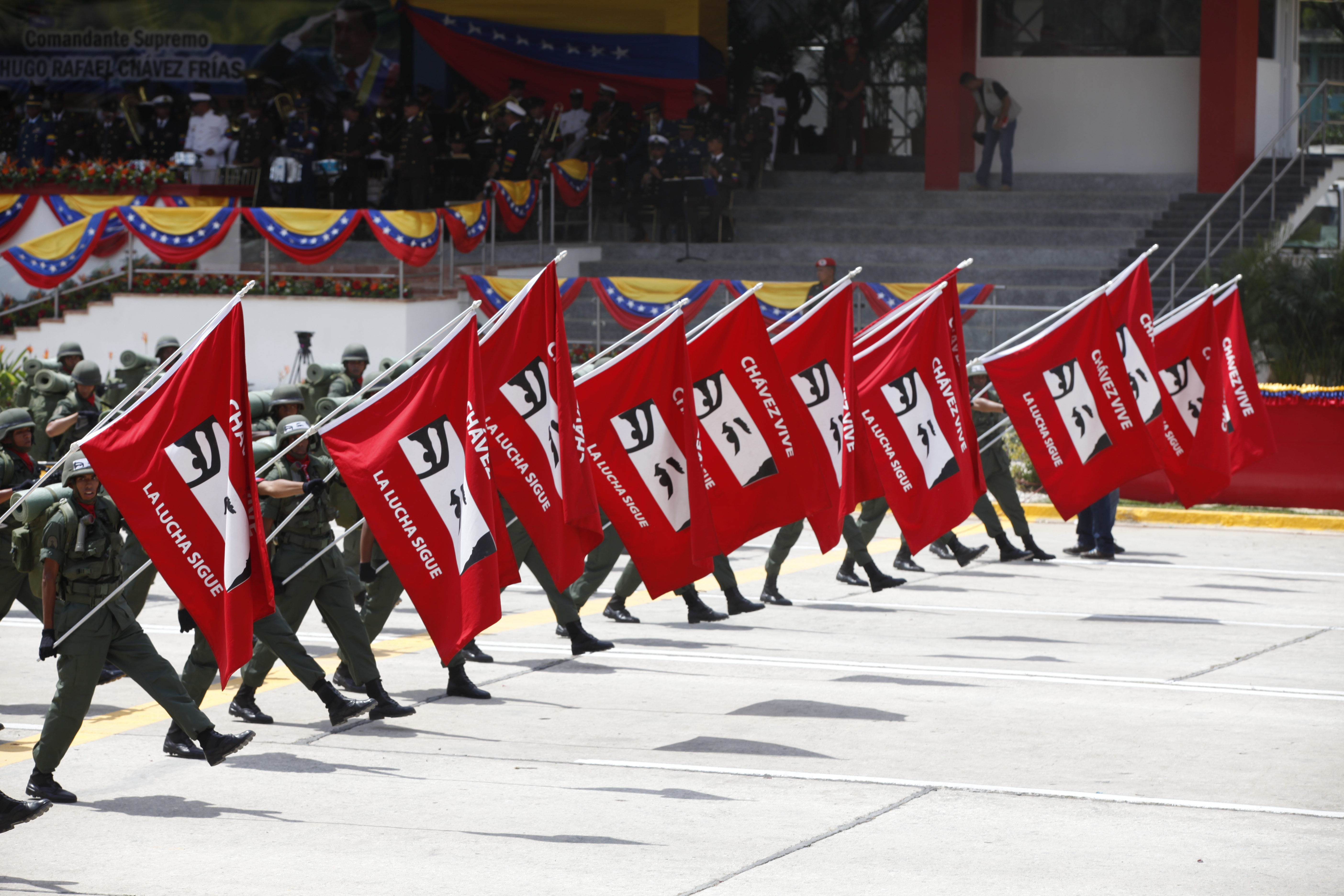 Caracas (Venezuela), 05 de Marzo del 2014. El Canciller del Ecuador, Ricardo Patiño, participó en los actos de conmemoración de la muerte del Comandante Hugo Chávez Frías. Foto: Xavier Granja Cedeño / Cancilleria Ecuador